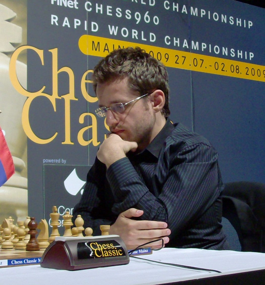 Levon Aronian, chess grandmaster from Armenia